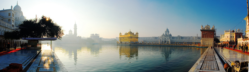 Panorama of the Golden Temple at Amritsar. Also known as Harmandir Sahib or Darbar Sahib.